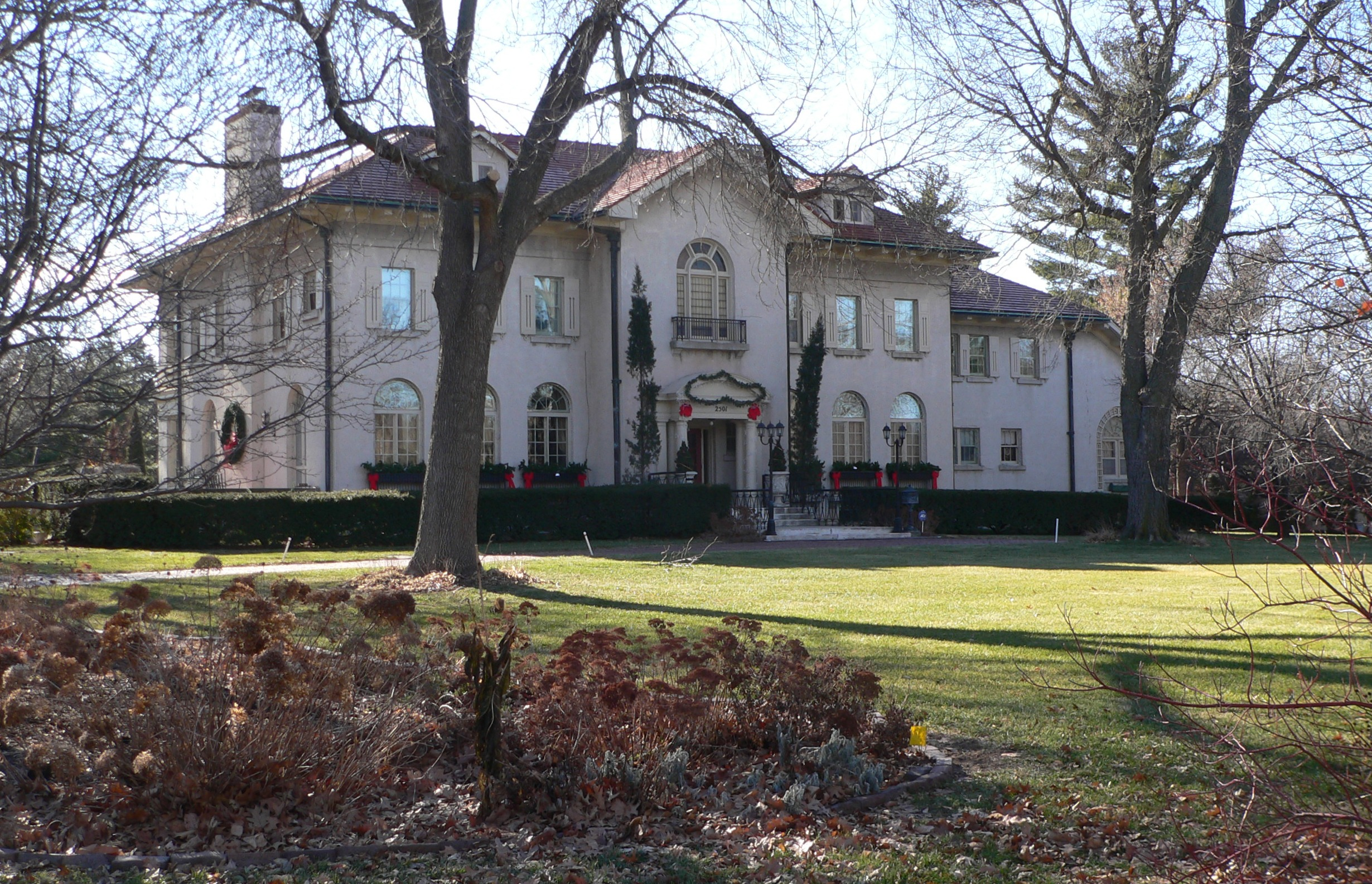 Frank and Nellie Cochrane Woods house, located at 2501 Sheridan Boulevard in Lincoln, Nebraska; seen from the northeast.